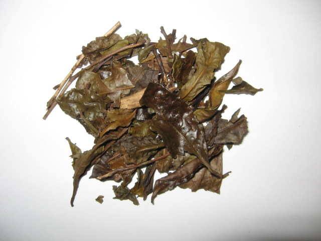 A picture of tea leaves of yoshino nikkan-bancha （日干番茶）: a variety of Japanese green tea.